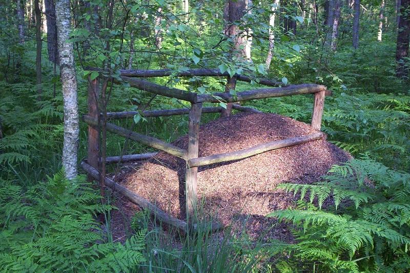 Ant hill (probably Formica rufa) in forest near Żyrardów (Bolimowski Park Krajobrazowy, Mazovia, Poland)